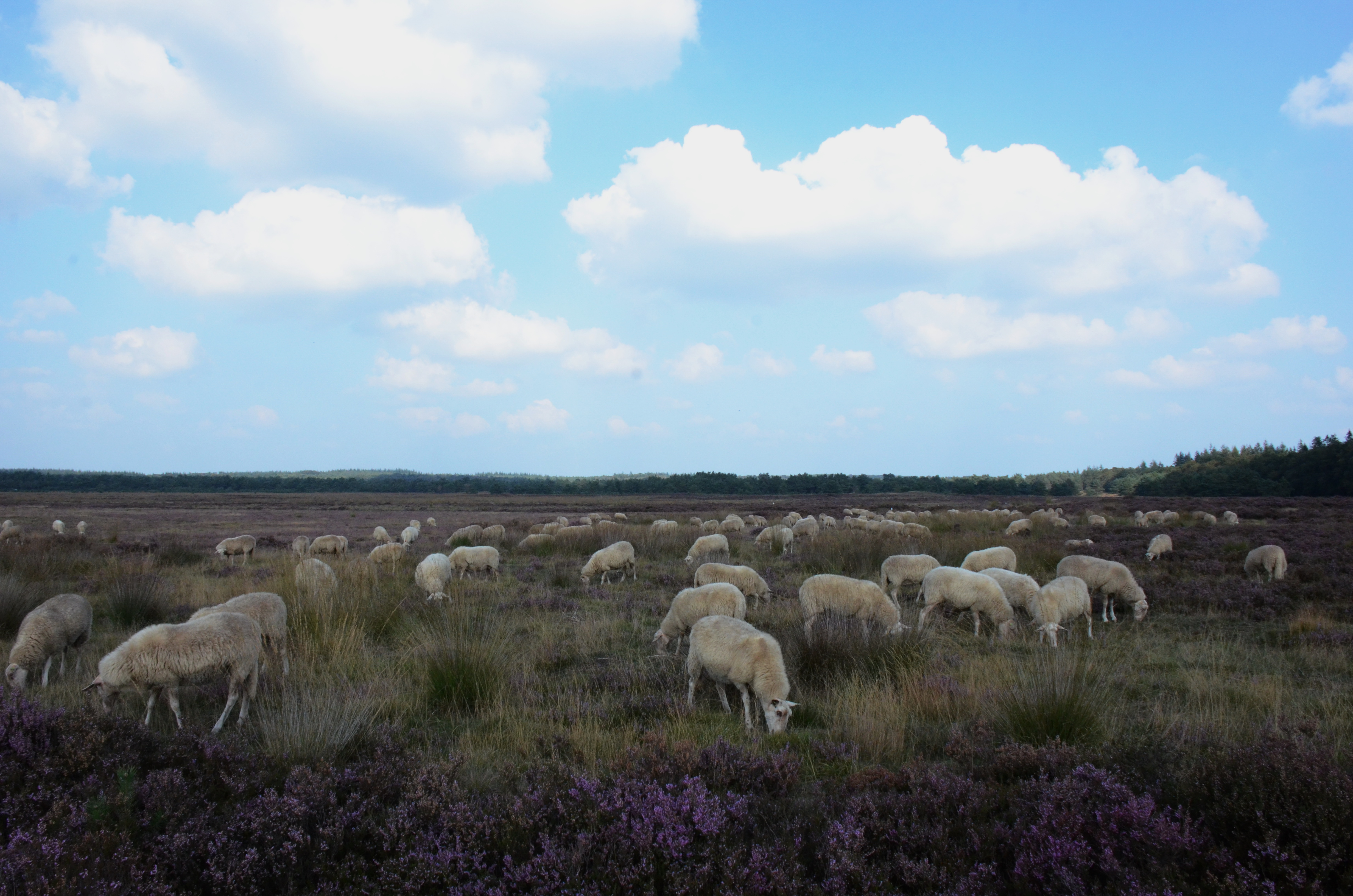 The famous sheep herd at the Ginkelse hei near Ede